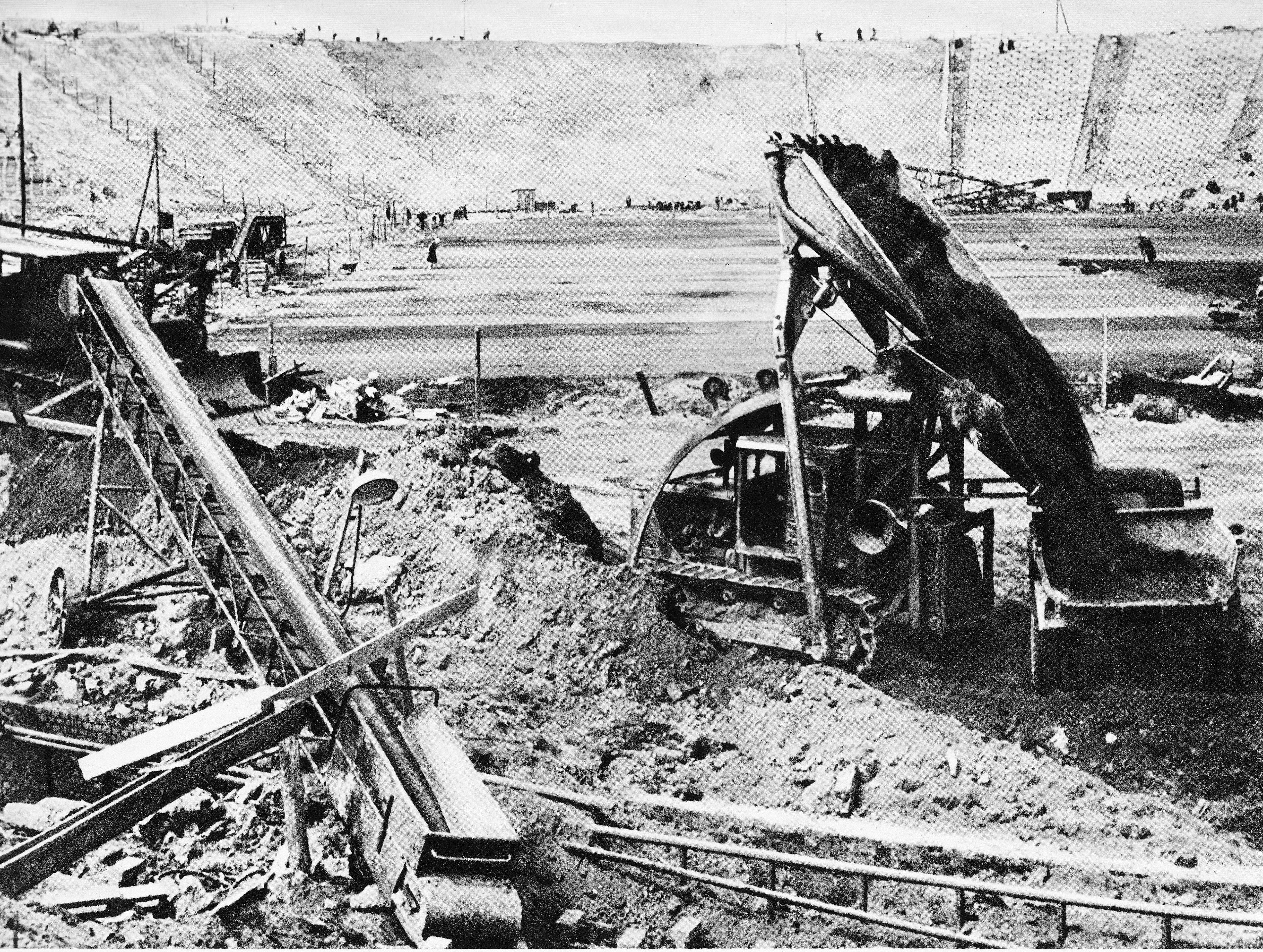 Construction of 10th-Anniversary Stadium in Warsaw